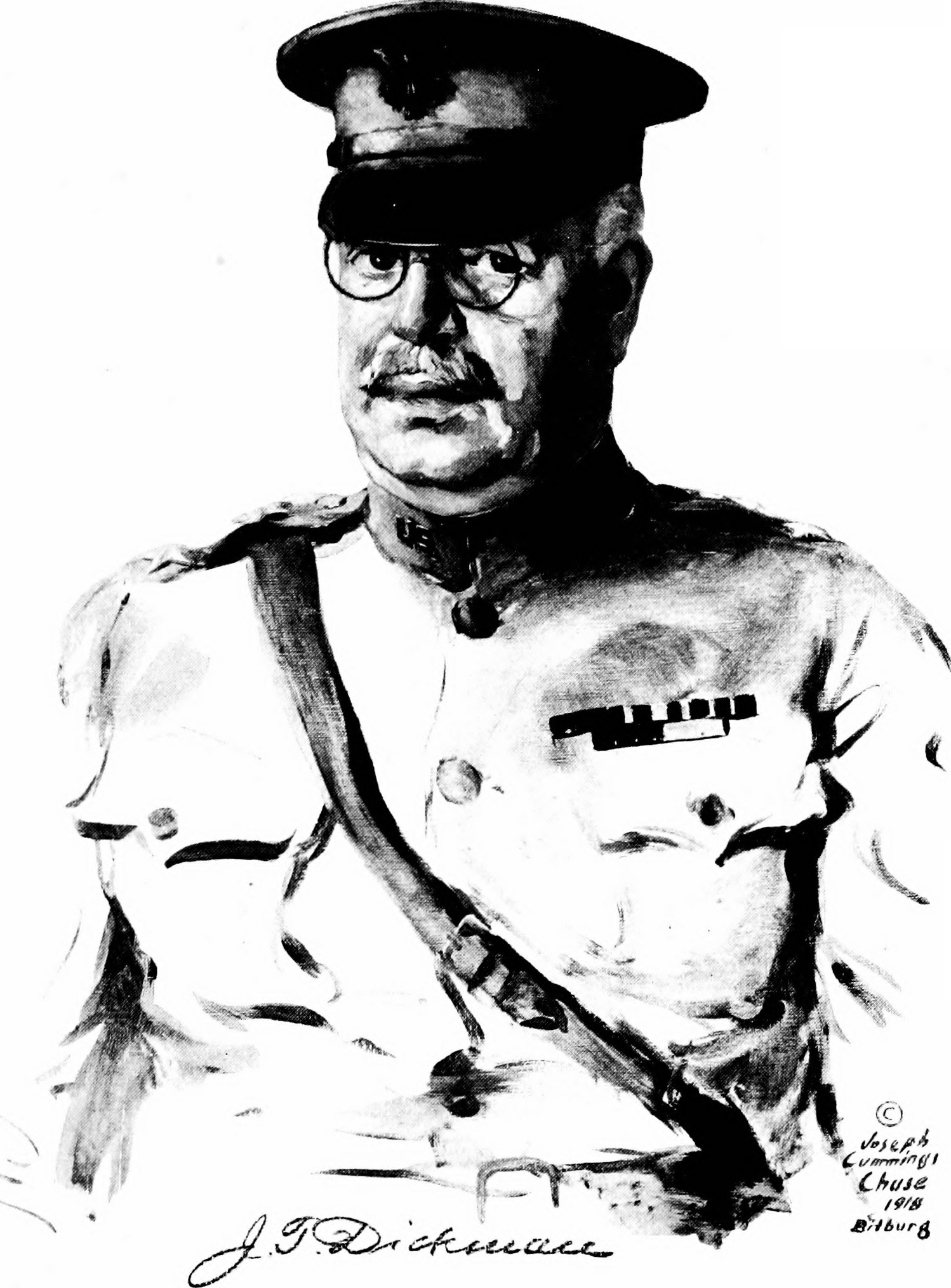 Title: Soldiers all; portraits and sketches of the men of the A. E. F. Year: 1920 (1920s) Authors: Chase, Joseph Cummings, 1878-1965 Subjects: United States. Army World War, 1914-1918 World War, 1914-1918 Publisher: New York, George H. Doran company Text Appearing Before Image: MAJOR GENERAL JOSEPH T. DICKMAN Arrived in France, March 14, 1918.Assignments: Commanded 3rd Division, March 30, 1917;Commanded 4th Army Corps, August 18, 1918;Commanded 1st Army Corps, October 12, 1918;Commanded 3rd Army (Army of Occupation).Born: Ohio, October 6, 1857.Distinguished Service Medal. For exceptionally meritorious and distin-guished services as commander of the ThirdArmy, American Expeditionary Forces.Commanded the Third Division and contrib-uted in large measure to success in hurlingback the final German general attack com-mencing July 14, 1918. He participated inoffensive northward to Vesle River; com-manded successively the First Army Corpsand the Third Army Corps in the ArgonneForest operation. In command of ThirdArmy of occupation at Coblenz, Germany.G. O. 136 (December 20, 1918). (97) Text Appearing After Image: (9 Cl/irrminyi Chase/we MAJOR GENERAL ROBERT L. HOWZE Arrived in France, September 28, 1918.Assignments: Commanded 38th Division; Temporarily assigned to 78th Division; Commanded 3rd Division, Army of Occupation.Engagements: Meuse-Argonne.Born: Texas, August 22, 1864.Distinguished Service Medal. G. O. 89.